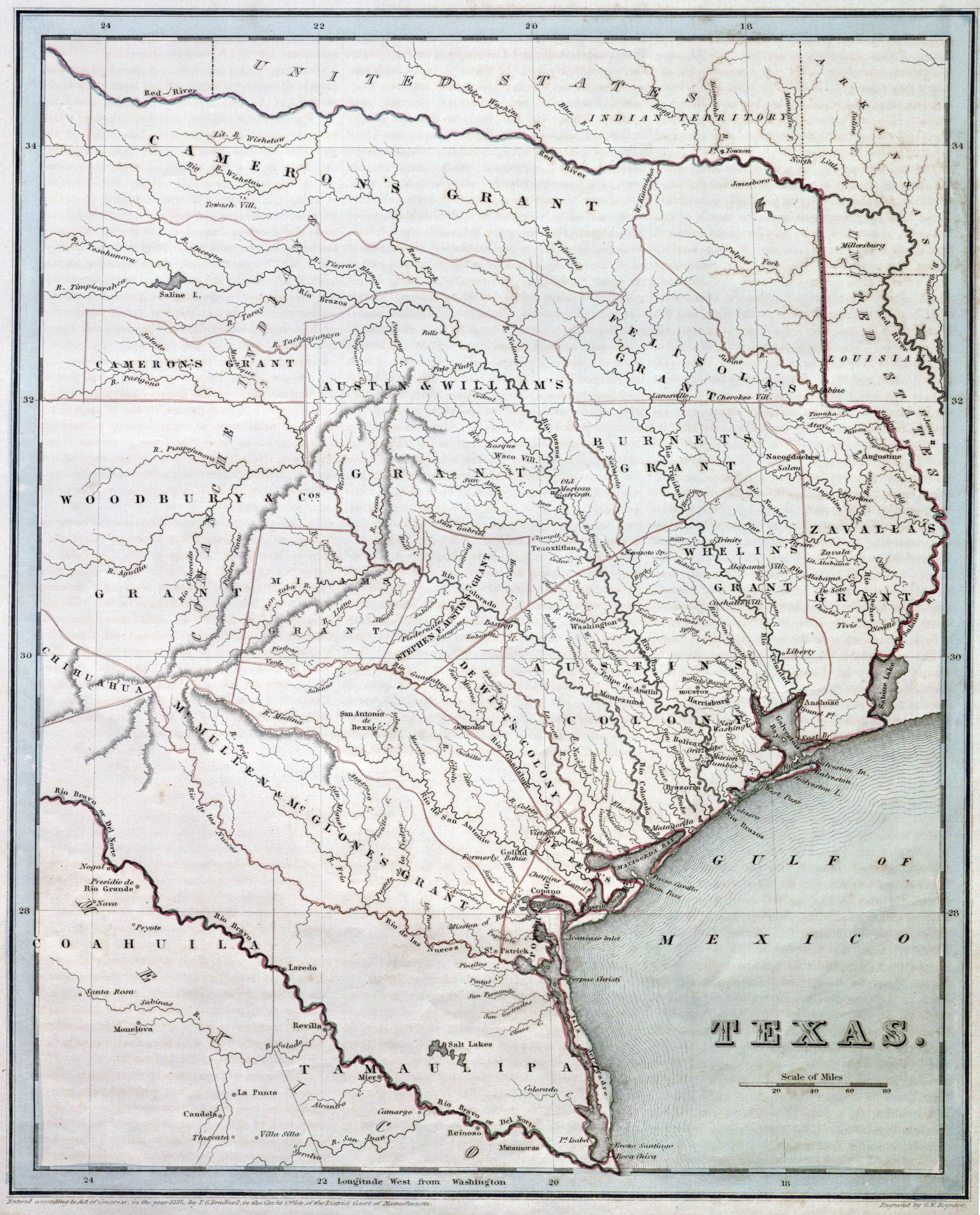 In addition to a map of Texas for his 1835 atlas, Boston editor and publisher Thomas Gamaliel Bradford (1802-1887) issued another larger map of the new republic in vertical format for his larger and more elaborate atlas of 1838. Boston engraver G. W. Boynton engraved the newer map. It corrected and updated some of the older information, such as, for examples: what was formerly "Goliod" is now correctly spelled "Goliad", Cole's Settlement is now the town of Washington; the towns of Corpus Christi, Houston, Electra, and others have been added as have the Coushatta and Alabama Indian villages in the east; and the northeast boundary with Arkansas and Louisiana has been corrected to reflect, for the most part, its current configuration. By outline and, in some versions by color, Bradford continued to show the old Mexican land grants rather than the republic's new counties. In his lengthy text accompanying the map he conceded that "the boundaries of this infant commonwealth are as yet unsettled on the side of Mexico" but the newer map includes the mouth of the Rio Grande; moreover, this example of Bradford's 1838 map depicts the Rio Grande as the boundary through original outline color suggesting perhaps Bradford may have had a different, more pro-Texas audience in mind.